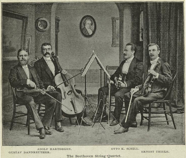 The Beethoven String Quartet from USA; Gustav Dannreuther (violin), Adolf Hartdegen (cello), Otto K. Schill (viola), Ernest Thiele (violin).